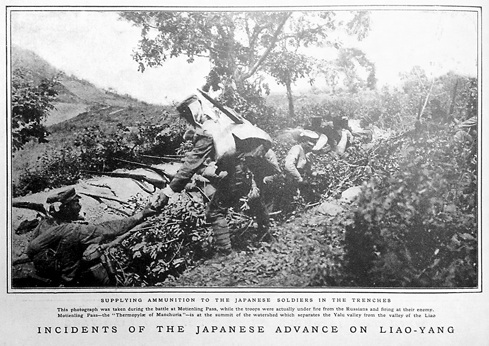 Supplying ammunition to the Japanese soldiers in the trenches. This photograph was taken during the battle of Motienling Pass, while the Japanese troops were actually under fire from the Russians and firing at their enemy. Motienling Pass – the „Thermopyle of Manchuria“ – is at the summit of the watershed which seperates the Yalu valley from the valley of the Liao.